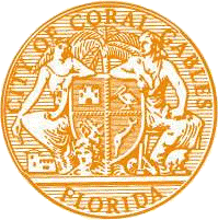 The official city seal of Coral Gables, Florida.